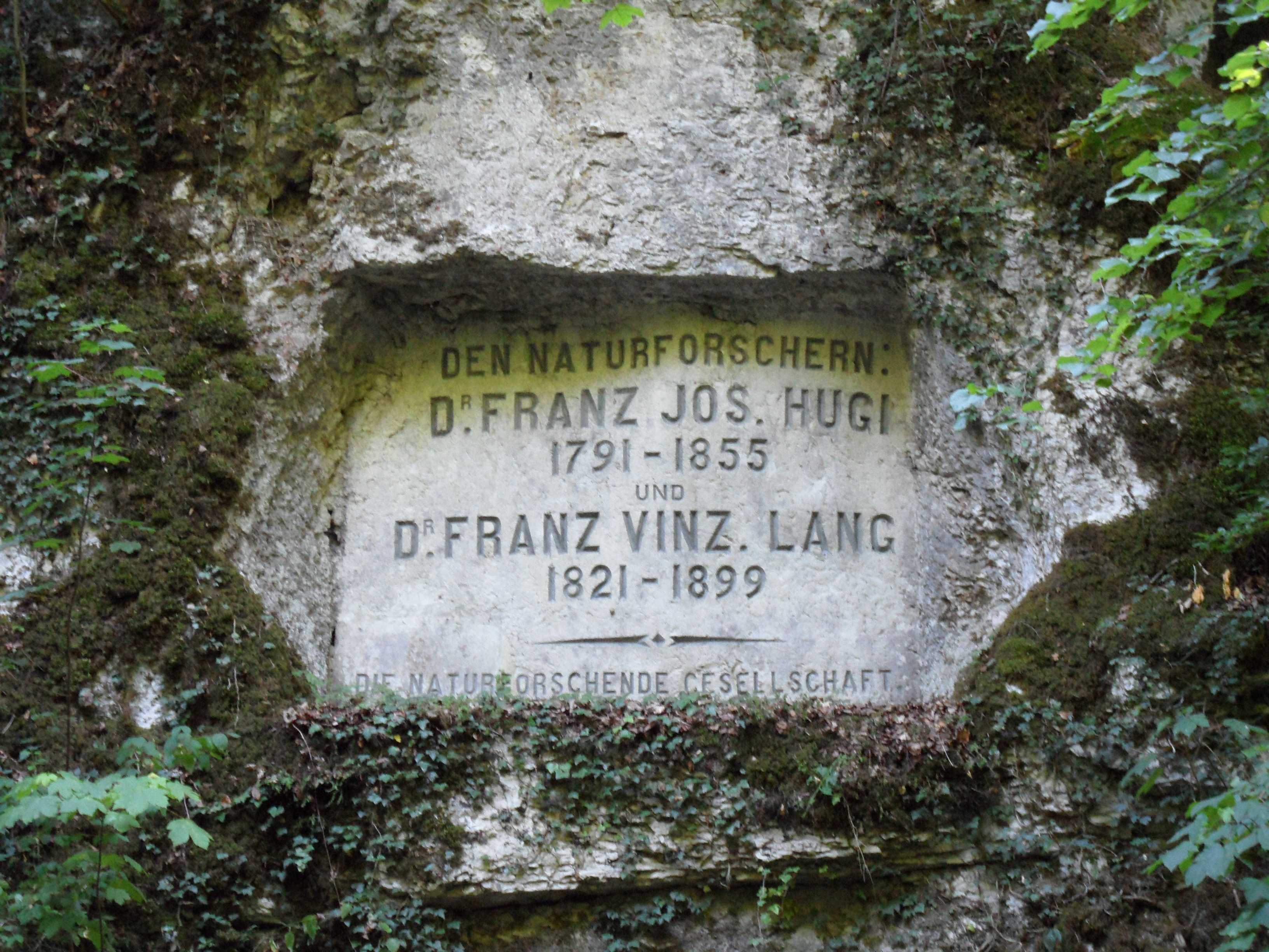 Memorial plaque to Swiss naturalists Franz Joseph Hugi (1791-1855) and Franz Vinzenz Lang (1821-1899) at Verenaschlucht near Solothurn, Switzerland.